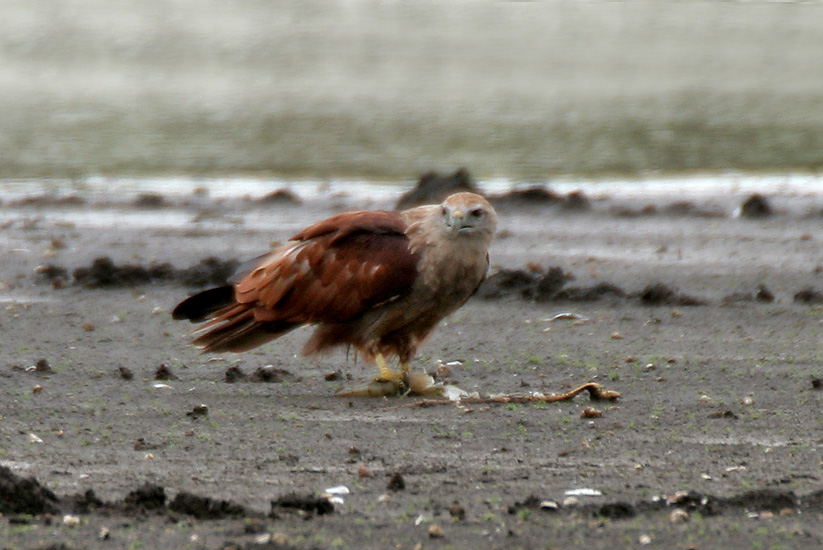 Brahminy Kite (Haliastur indus) or Red-backed Sea-eagle Haliastur indus - Sind: Pilyo, Rutta okab, Hindi: Brahmini cheel, Sankar cheel, Dhobia cheel, Roo mubarak, Khemkarni, Sans: Khemankari, Shemkari chill, Pun: Bahmani ill, Santhali: Kehe, Ben: Shankha cheel, Ass: Ranga cheelani, Guj: Brahmani cheel, Bhagui samali, Mar: Sagaari ghar, Ori: Sankhachila, Ta: Sem parundu, Krishna parundu, Garuda parundu, Te: Garuda lawa, Garutmantadu, Bapana gadda, Yerkali: Shemberid, Mal: Garudan, Krishna parundu, Kan: Garuda, Giduga, Sinh: Ukussa- at Pocharam lake, Andhra Pradesh, India.